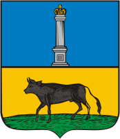 Syzran (Samara oblast), coat of arms (1780)